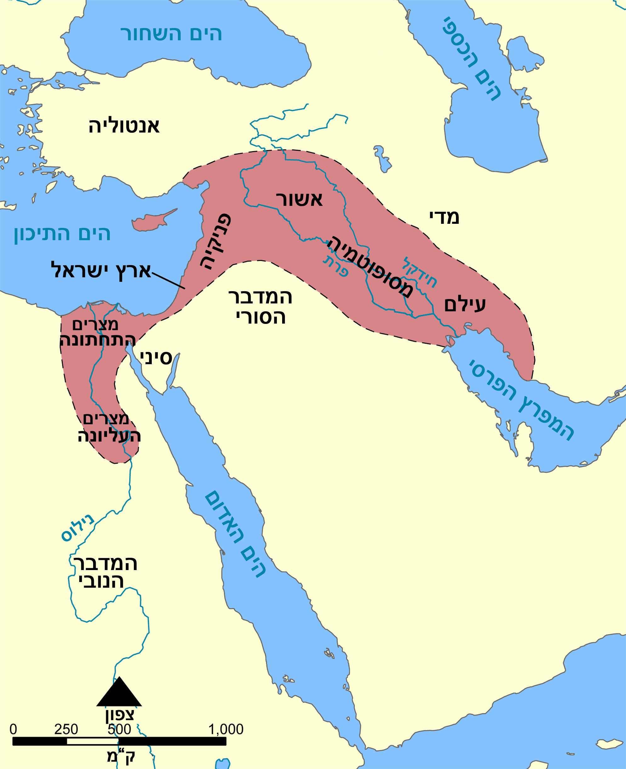 This map shows the location and extent of the Fertile Crescent, a region in the Middle East incorporating Ancient Egypt; the Levant; and Mesopotamia.